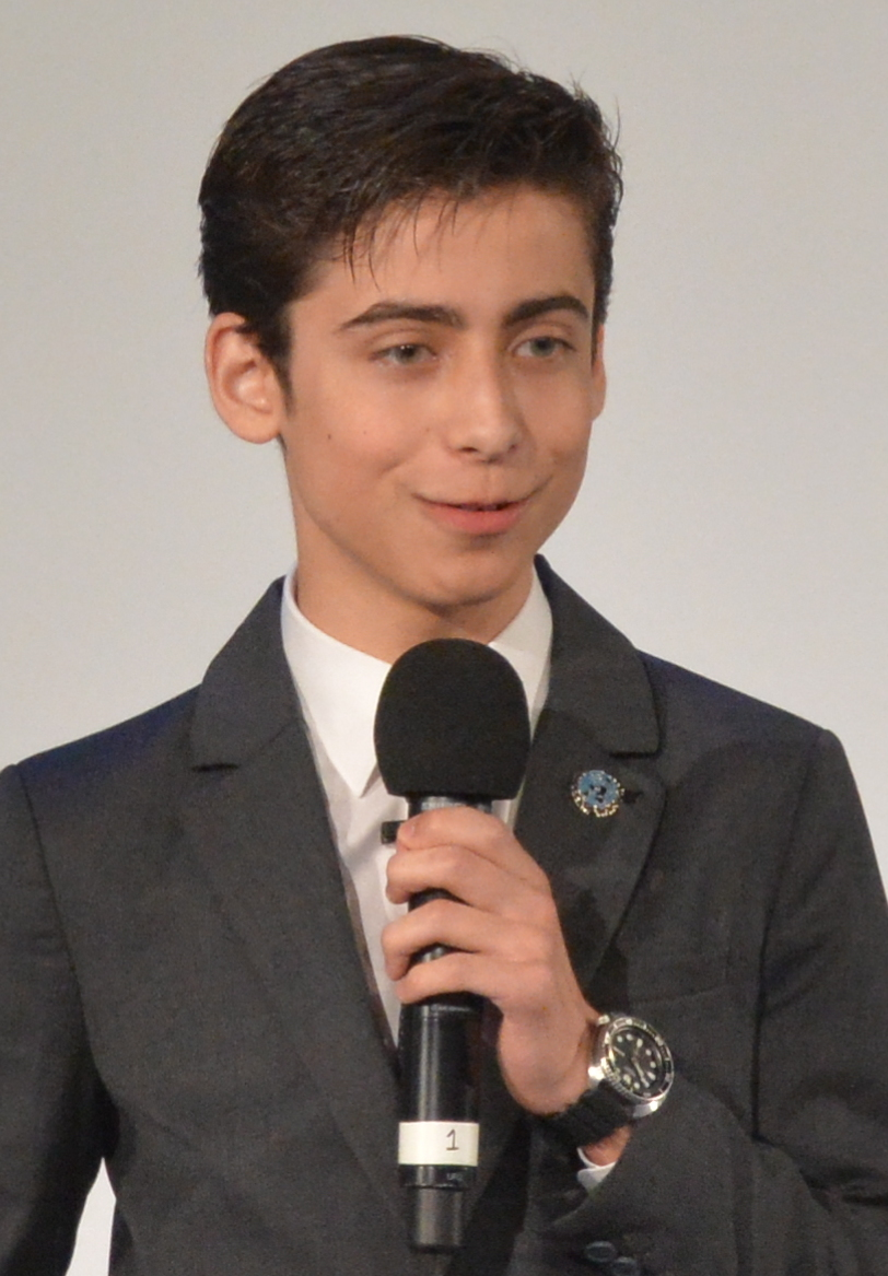 Aidan Gallagher, UN Environment Goodwill Ambassador at the Illegal Wildlife Trade Conference: London 2018, 11 October 2018. Photographer: Mark Mackenzie